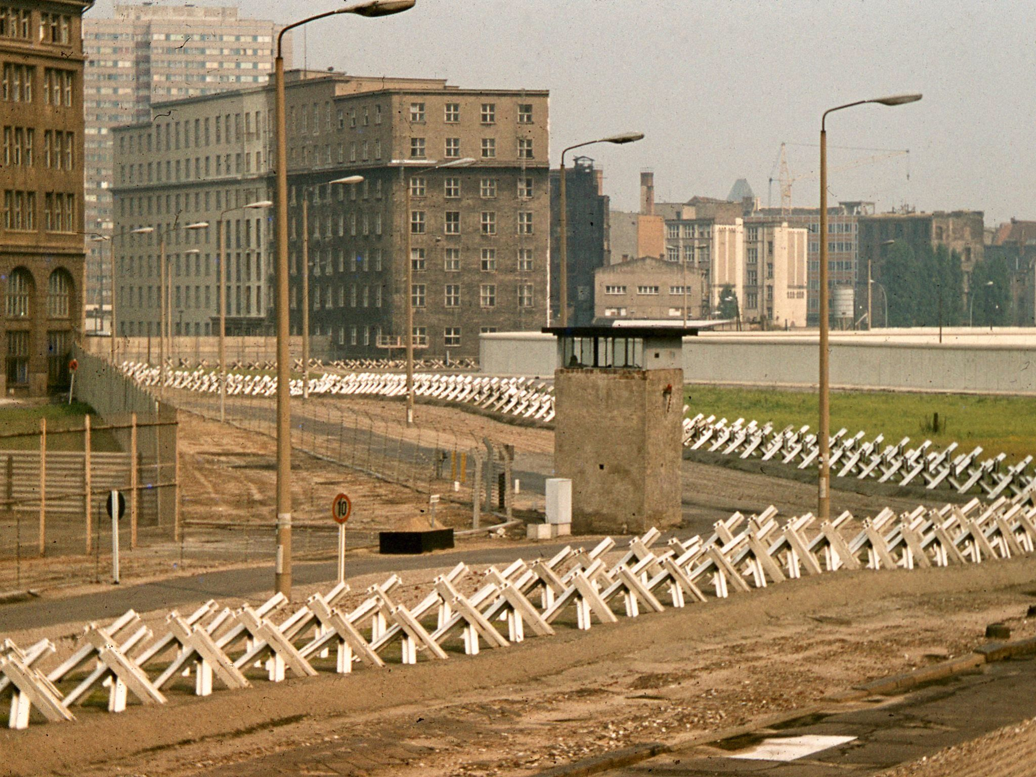 Berlin Wall death strip, 1977, showing Czech hedgehog and guard tower. Other information Photo by George Garrigues